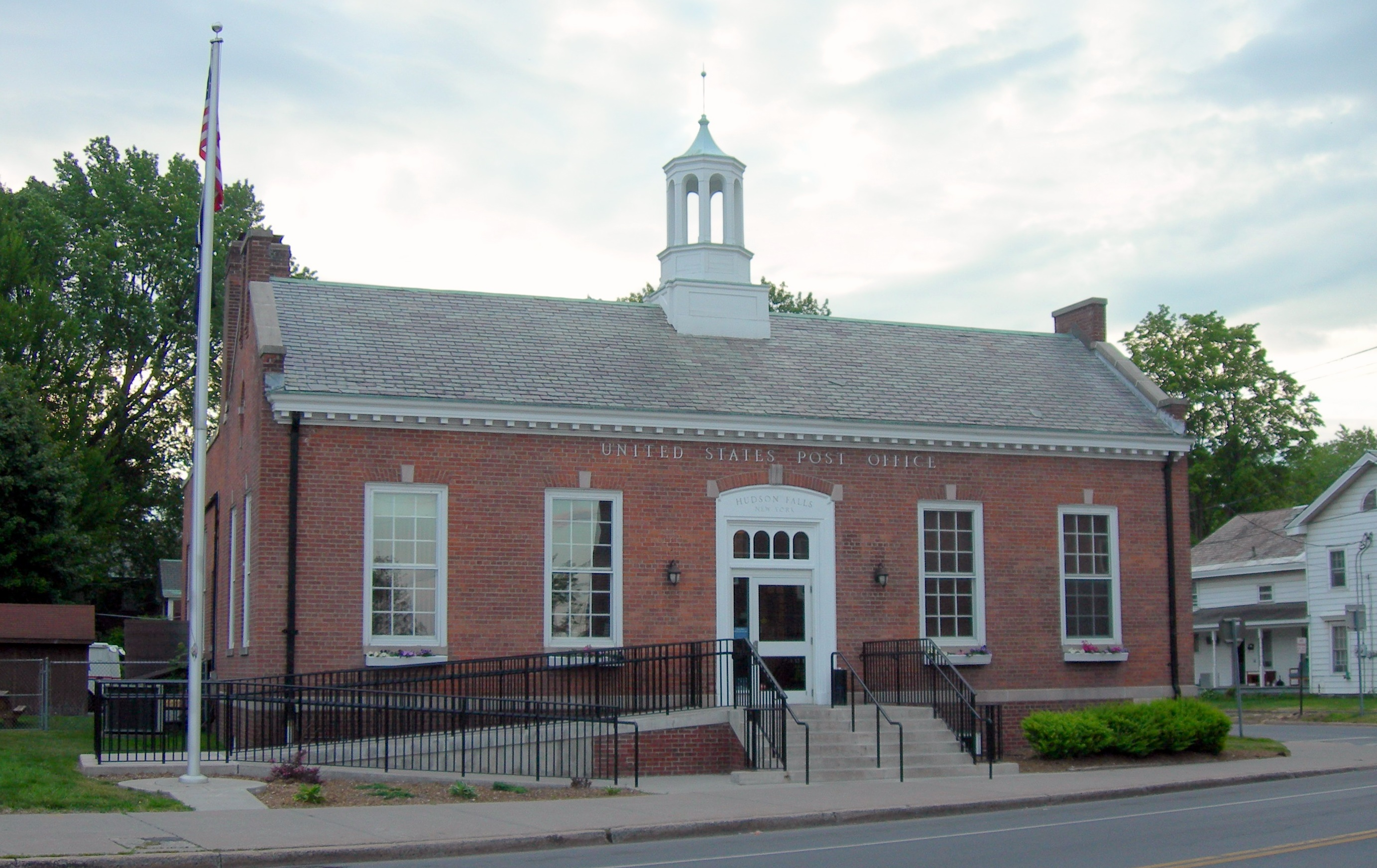 Constructed in 1937. The 4 walls of the lobby are covered with TRAP (Treasury Relief Art Project) murals